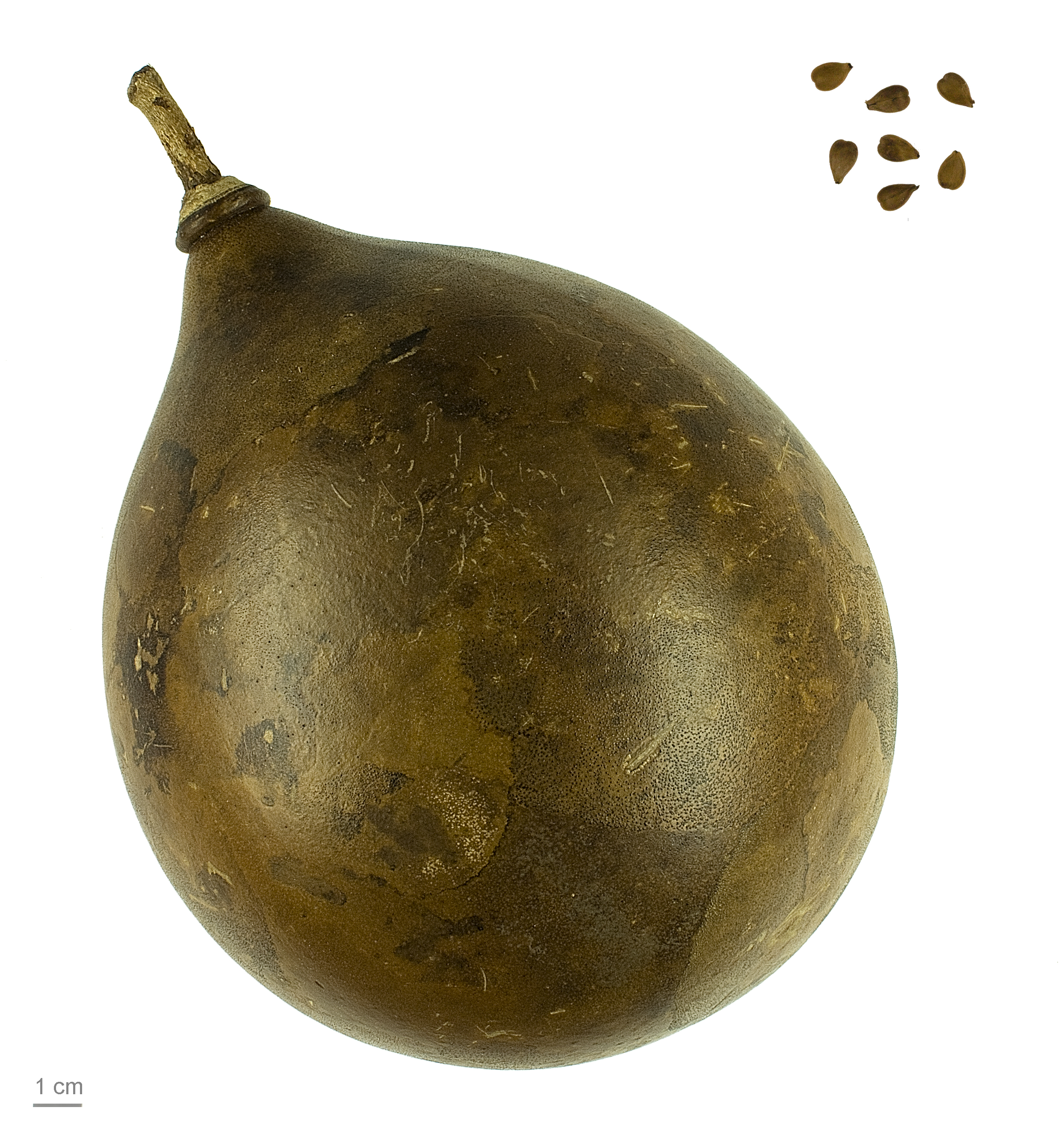 Calabash Tree , fruits and seeds